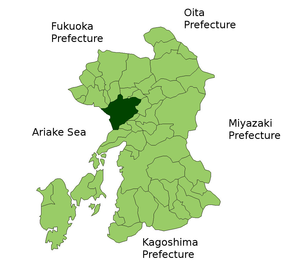 Map of Kumamoto Prefecture highlighting Kumamoto city. Borders of map as of July, 2006. (blank map used from [1]) See also Image:KumamotoMapCurrent.png.